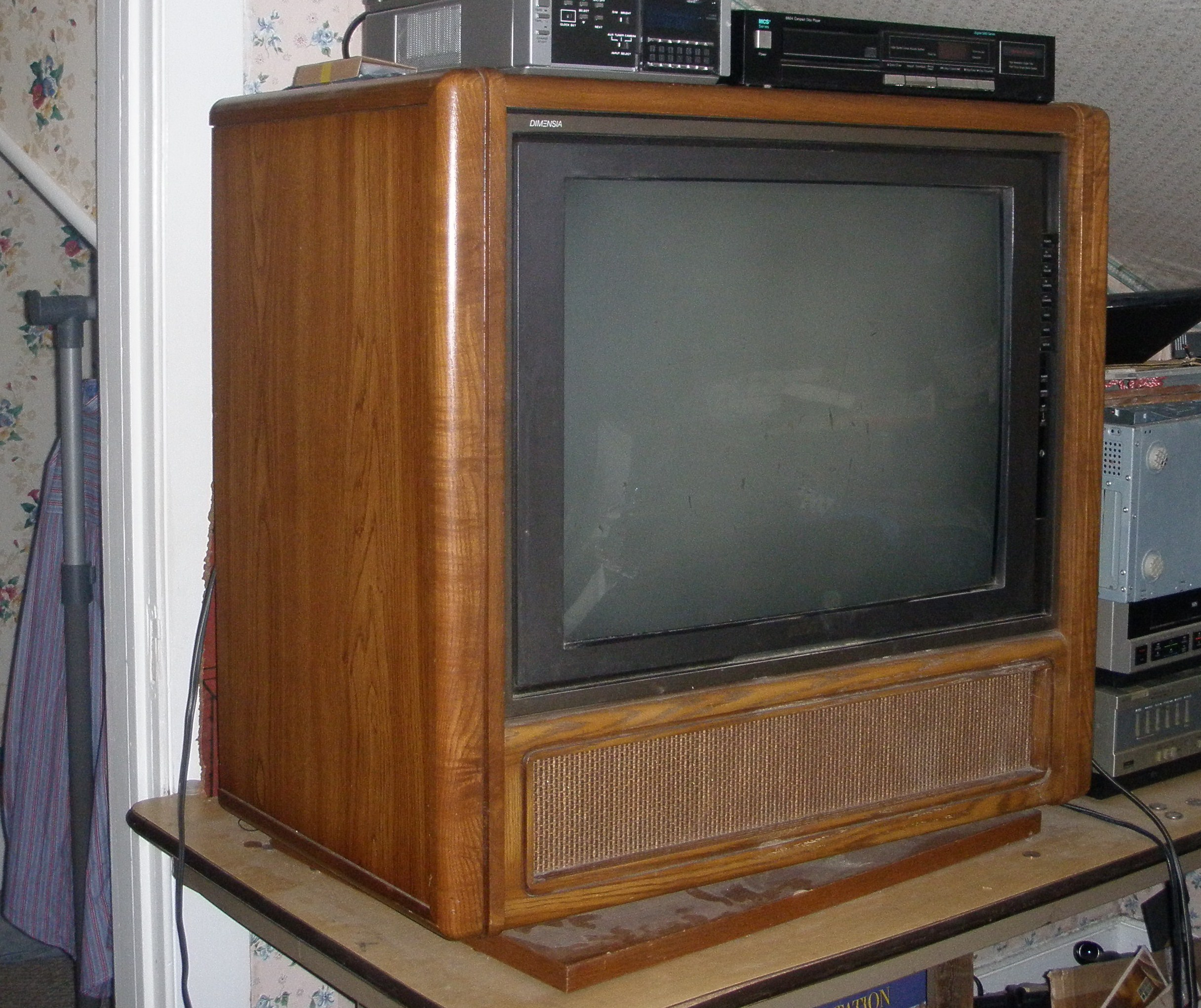 RCA Dimensia